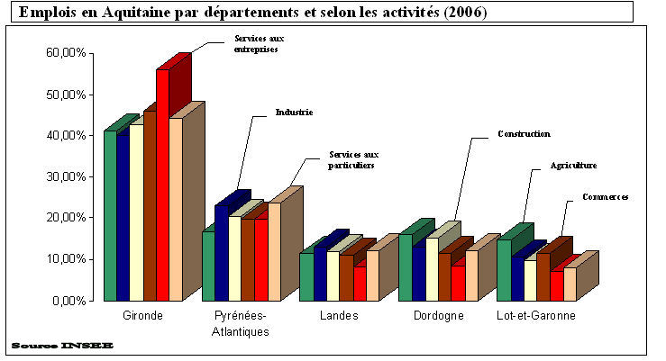 Jobs in Aquitaine by departments according to the activities in 2006